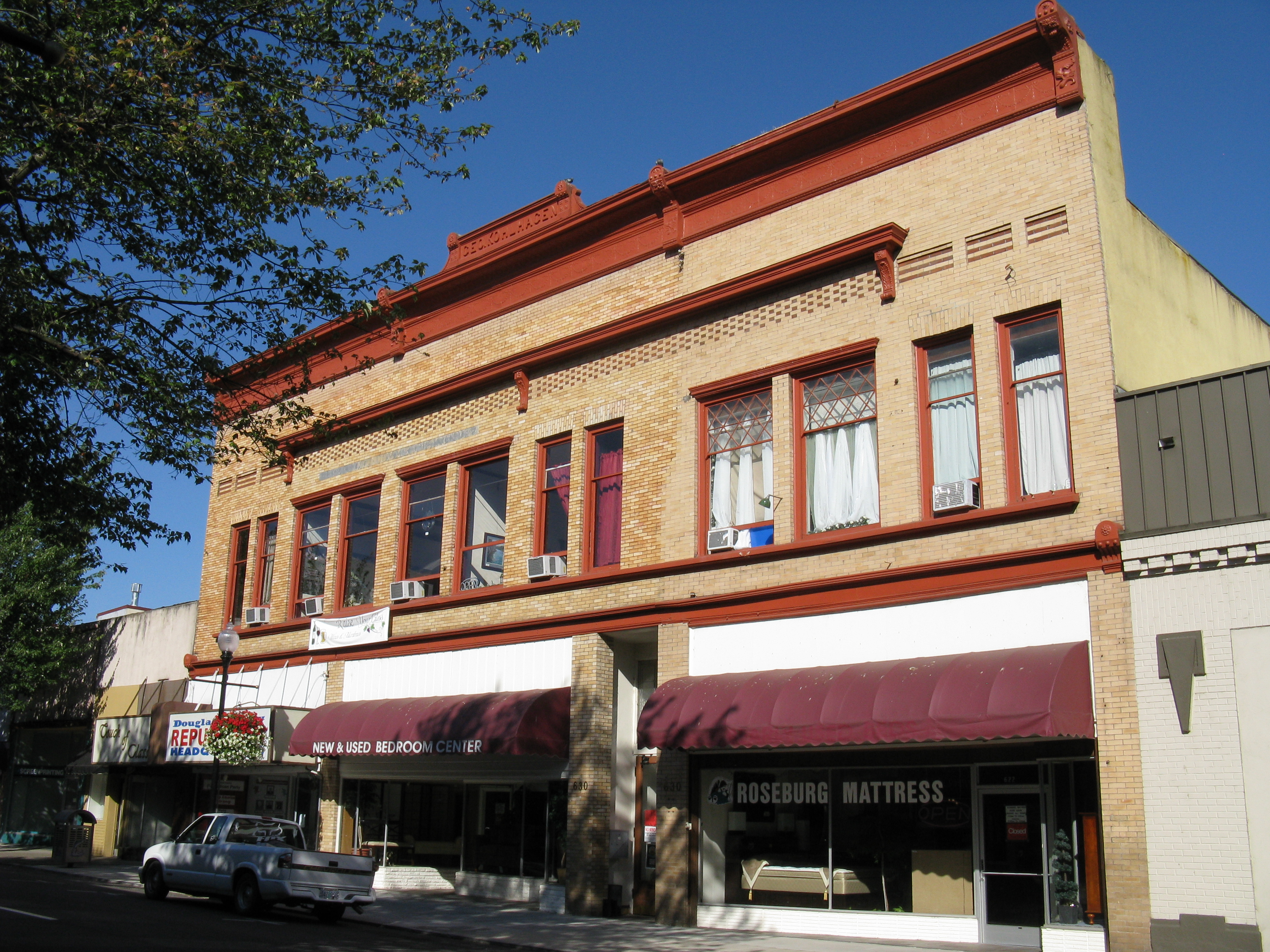 The historic George Kohlhagen Building (built 1906), located at 622-640 Southeast Jackson Street in Roseburg, Oregon, United States, is listed on the US National Register of Historic Places.